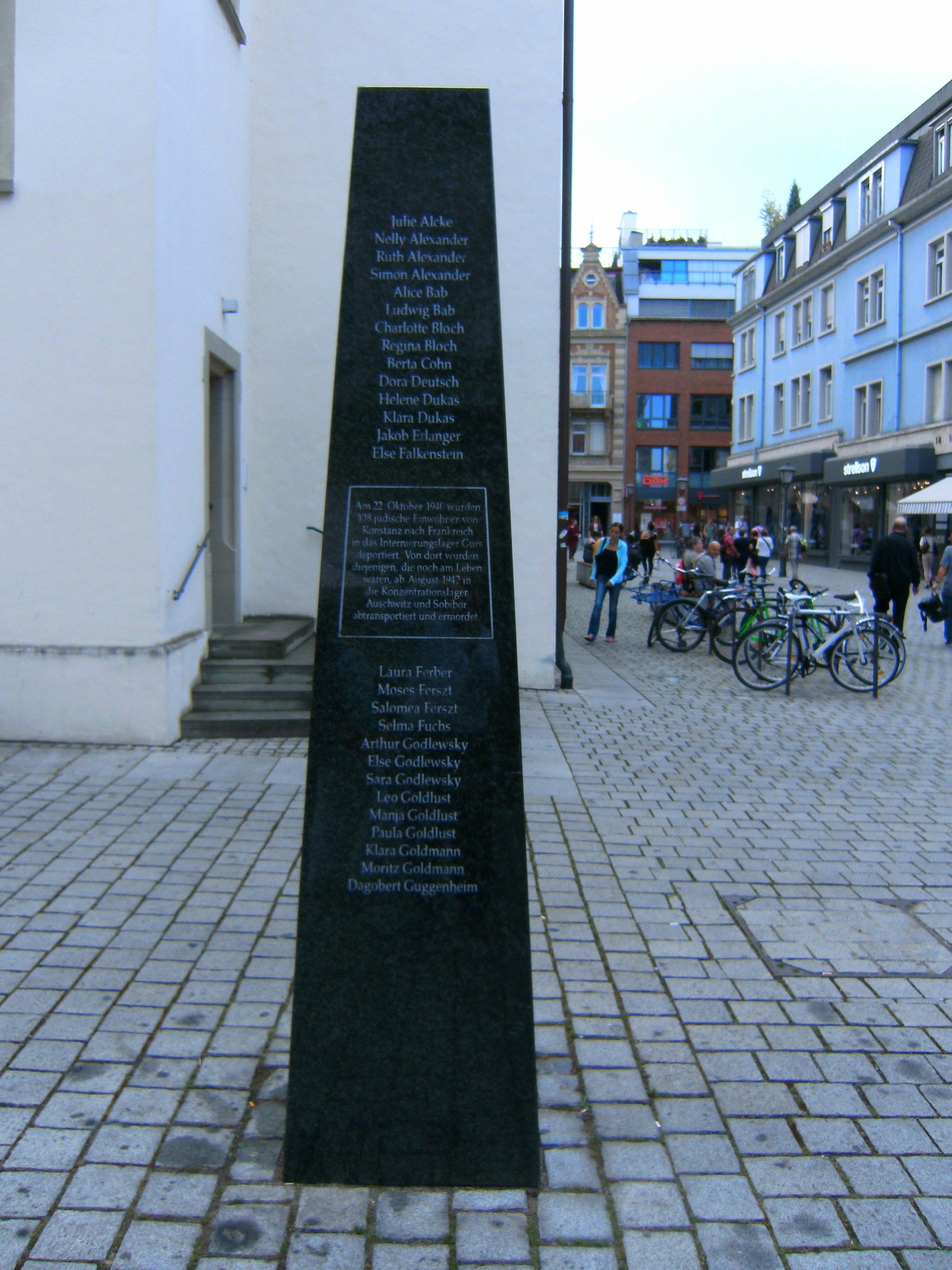 In memory: Konstanz Bahnhofstraße/Sigismundstraße: Monolith with the names of deported jews from Konstanz, Germany. All four sides with names.